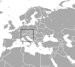 Udine Shrew (Sorex arunchi) range